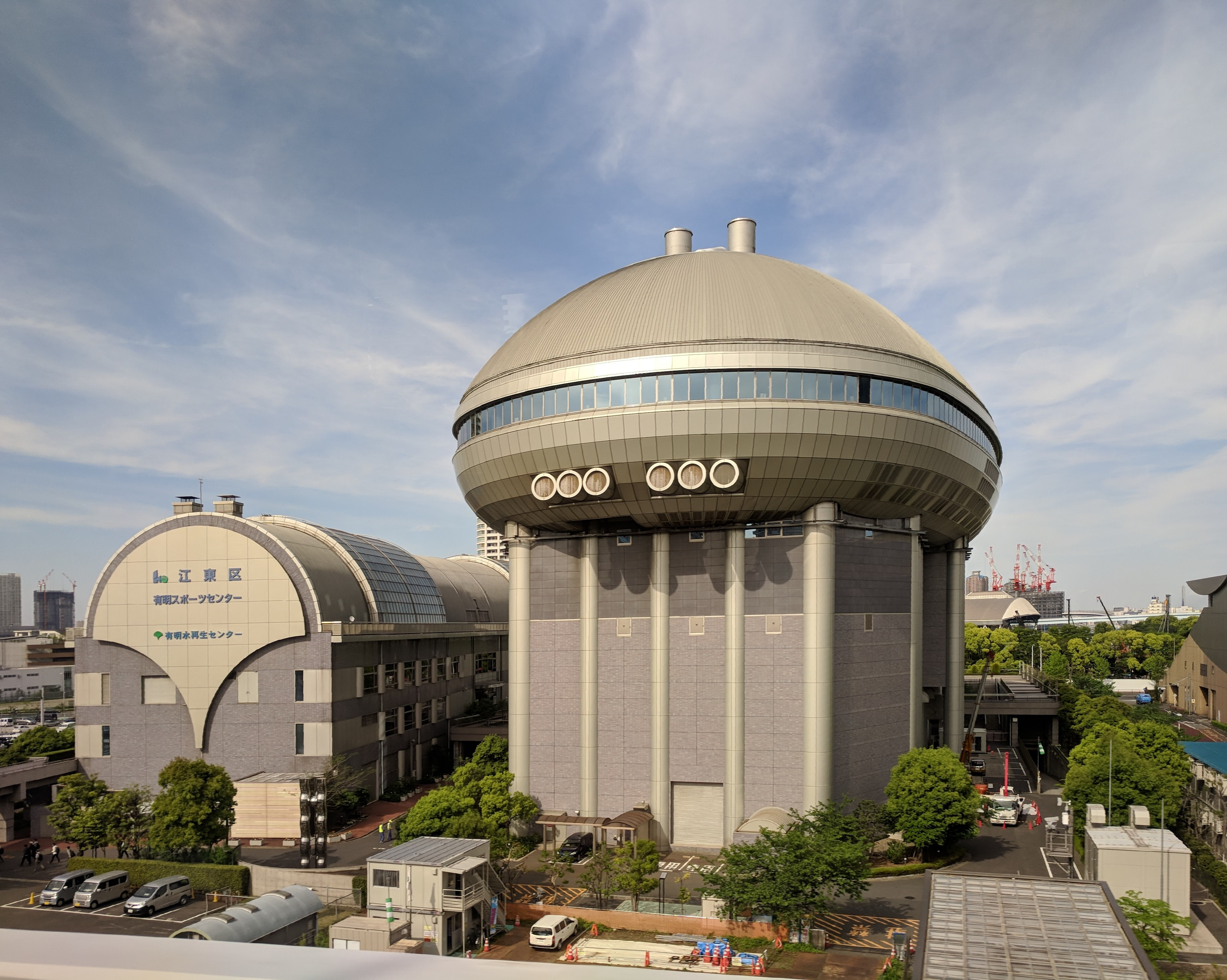 The Ariake Sports Center, seen from the window of a bus crossing the Rainbow Bridge in Tokyo.